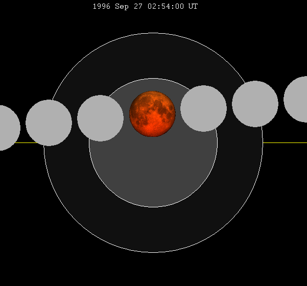 September 1996 lunar eclipse chart of moon's total lunar eclipse path through the earth's shadow. thumb